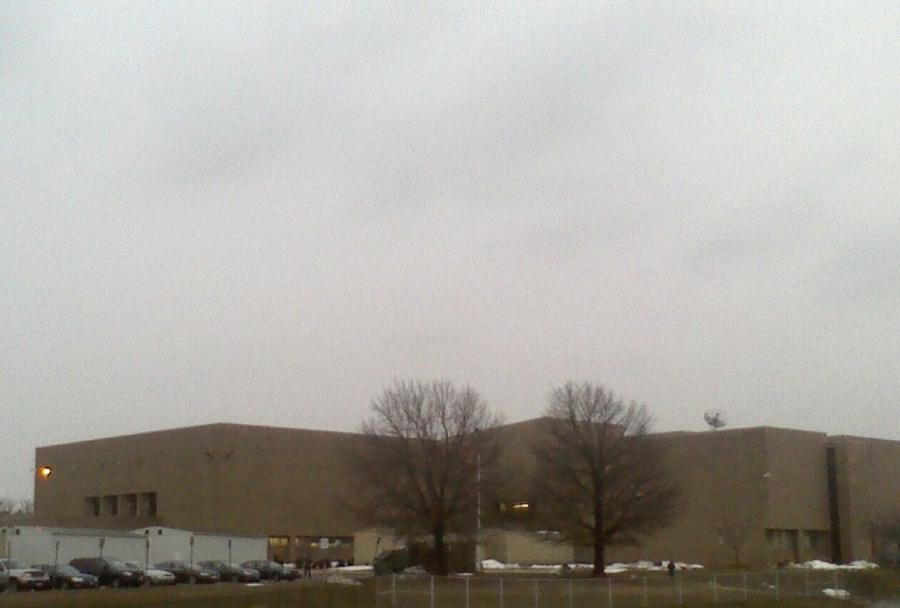 The posterior view of Eleanor Roosevelt High School in Greenbelt, Maryland